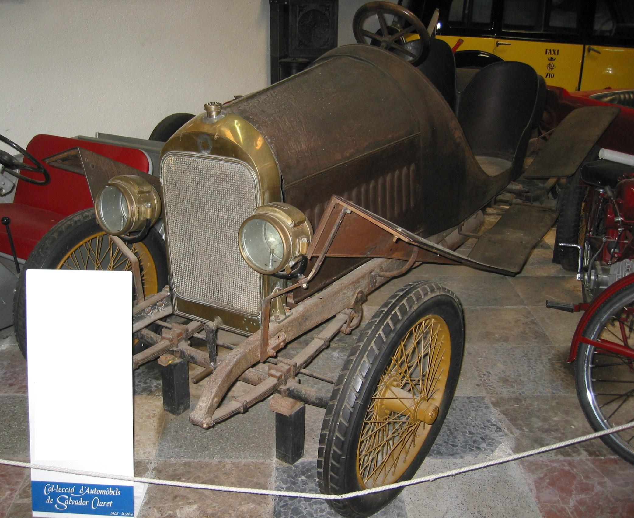 Ideal 1917 (Country of origin: Spain)